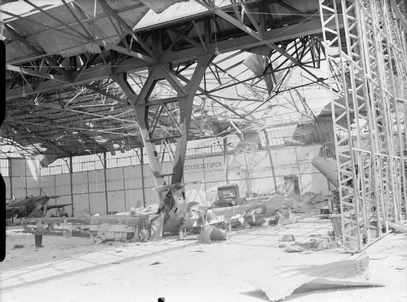 Royal Air Force- France, 1939-1940. Interior of a bombed hangar at Mourmelon-le-Grand after a heavy German attack on the airfield on 14 May 1940. The remains of a Miles Magister and at least two Fairey Battles, belonging to No. 88 Squadron RAF, can be seen in the wreckage.